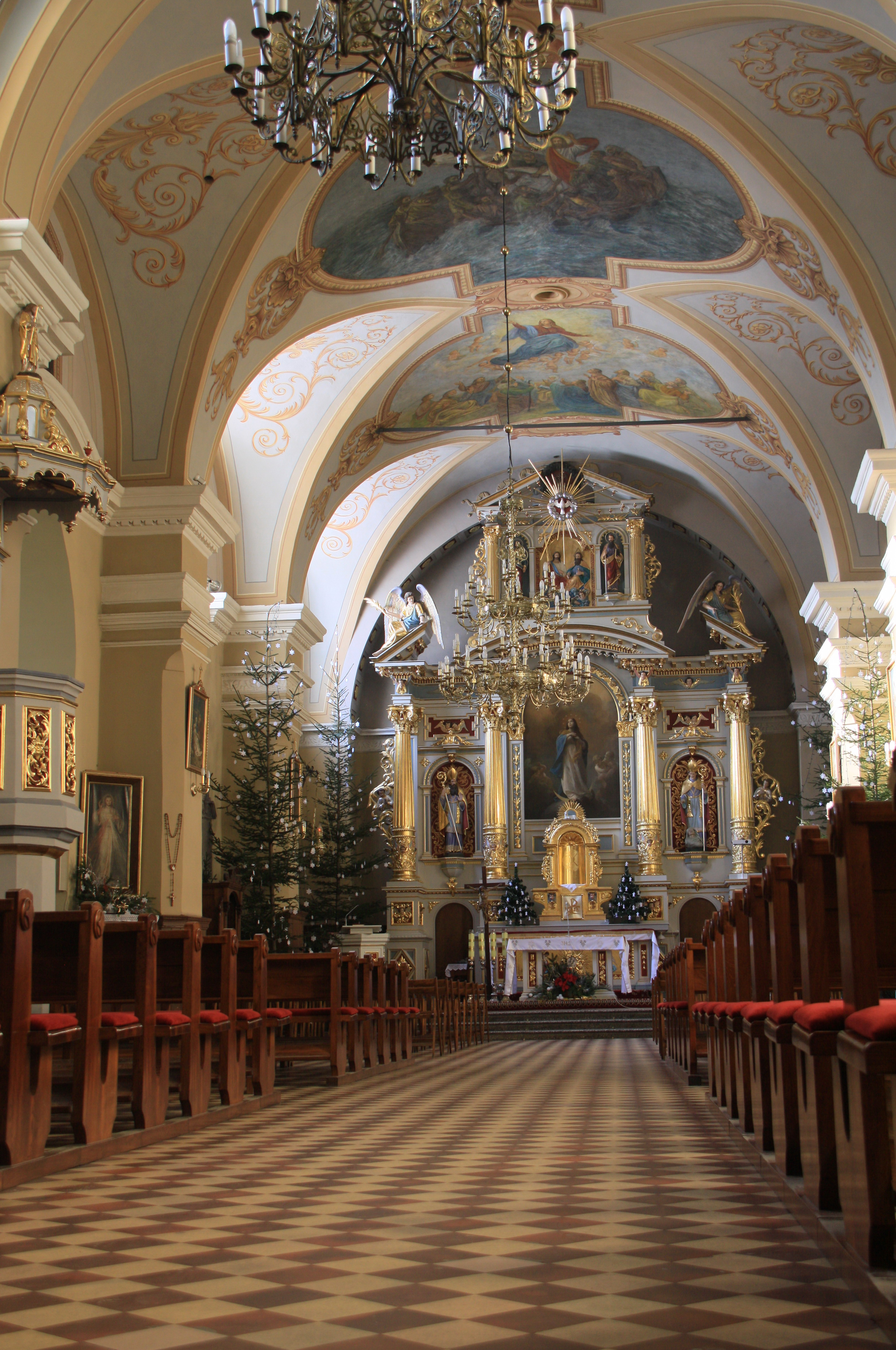 Church of the Immaculate Conception of the Blessed Virgin Mary in Busko-Zdrój, interior. January 24, 2012.